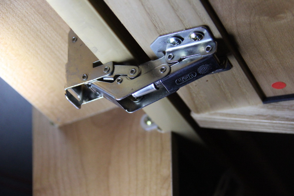 Overhead bin hinge; Overhead cabinet hinge; Locker door hinge; Frog hinge